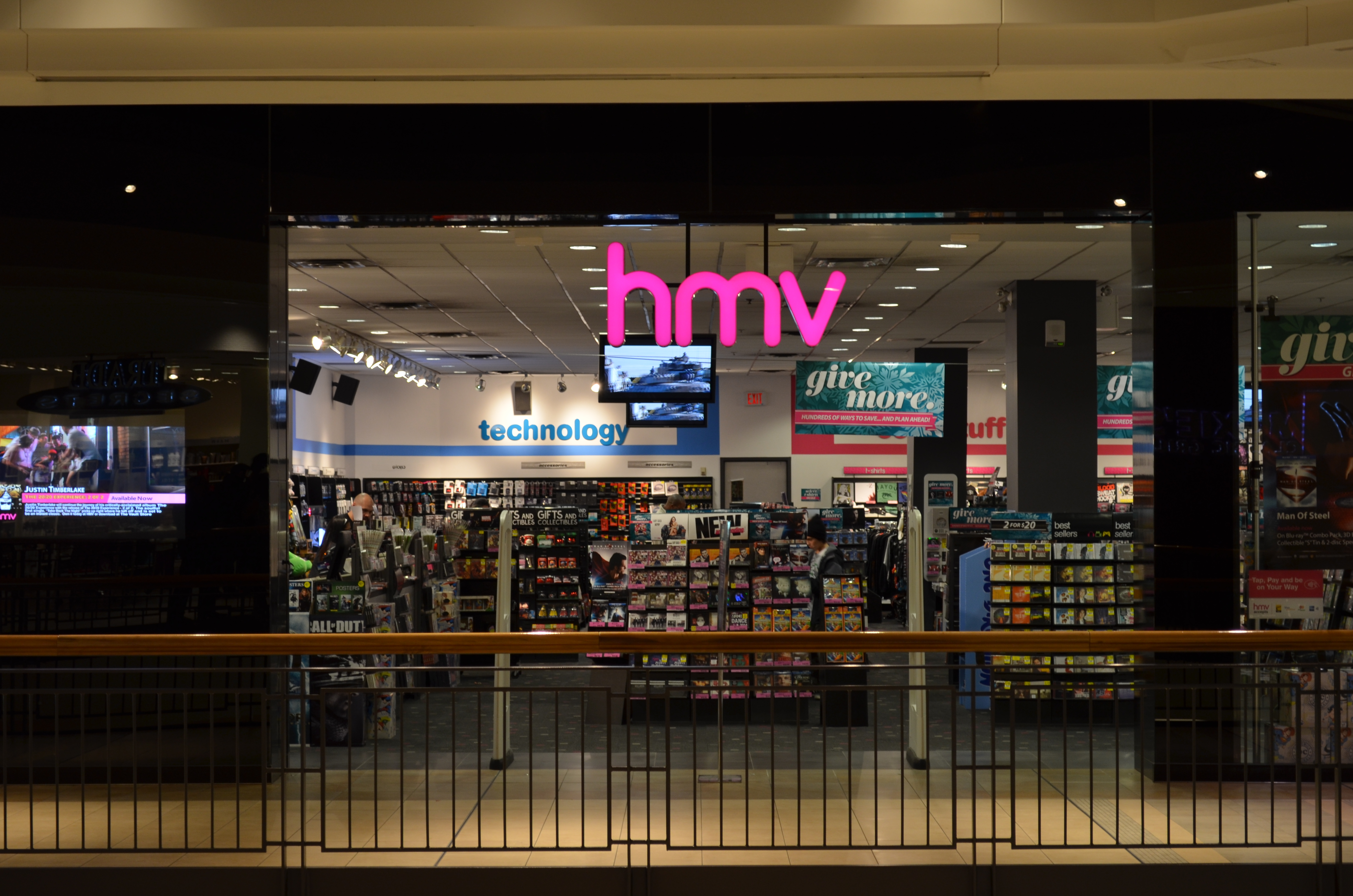 HMV at Fairview Mall